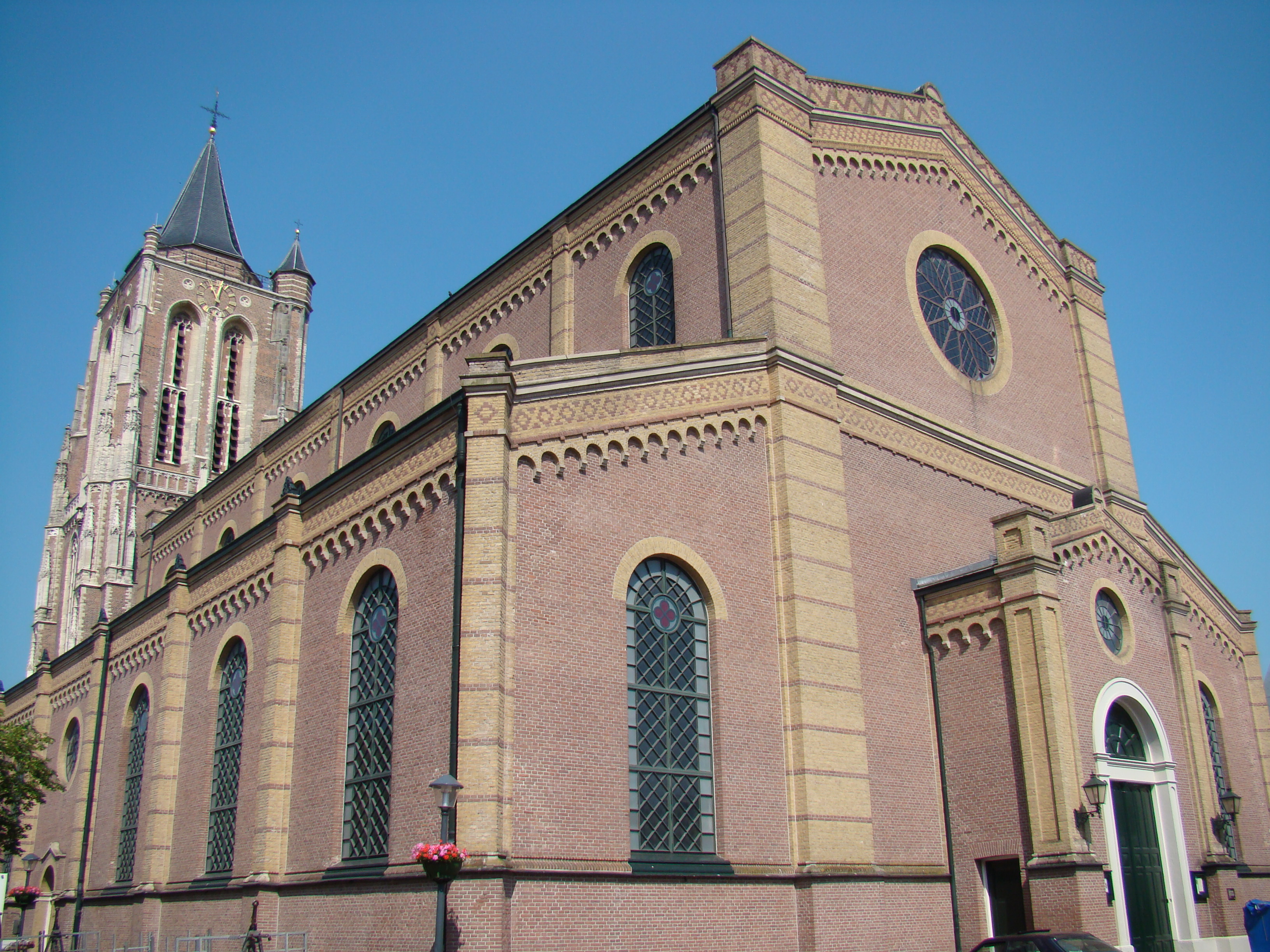 Church of Gorinchem, Netherlands